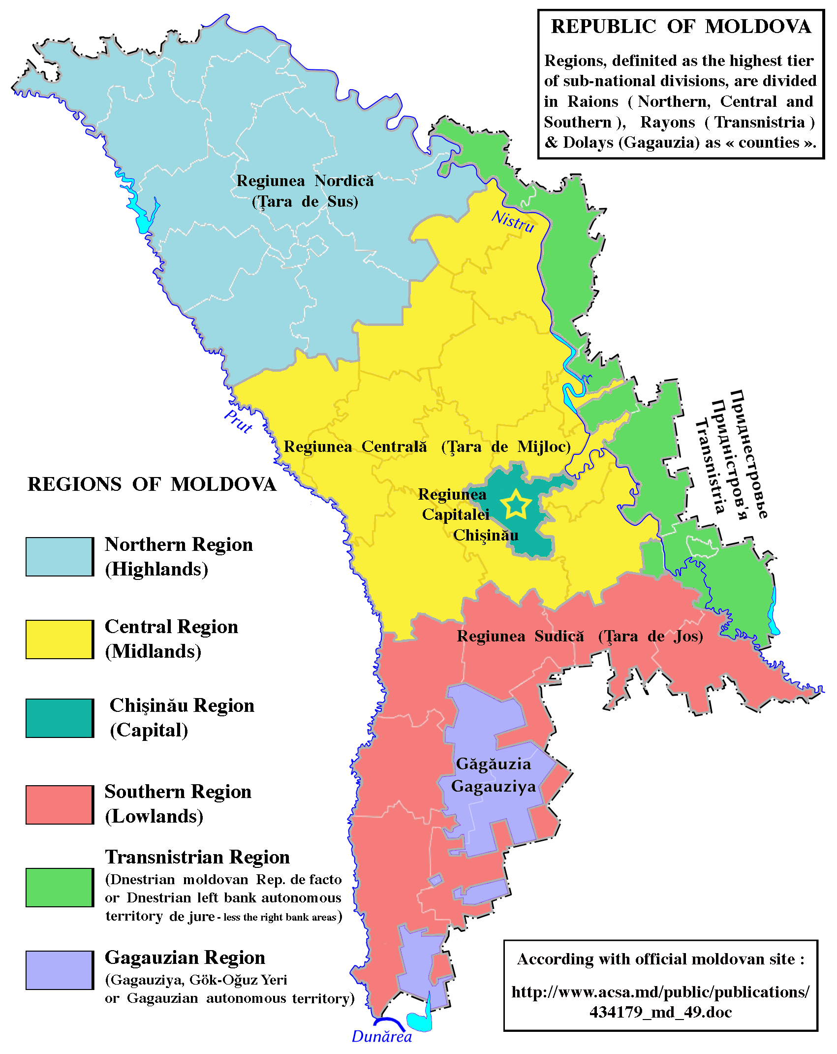 Regions of Moldova (de facto)